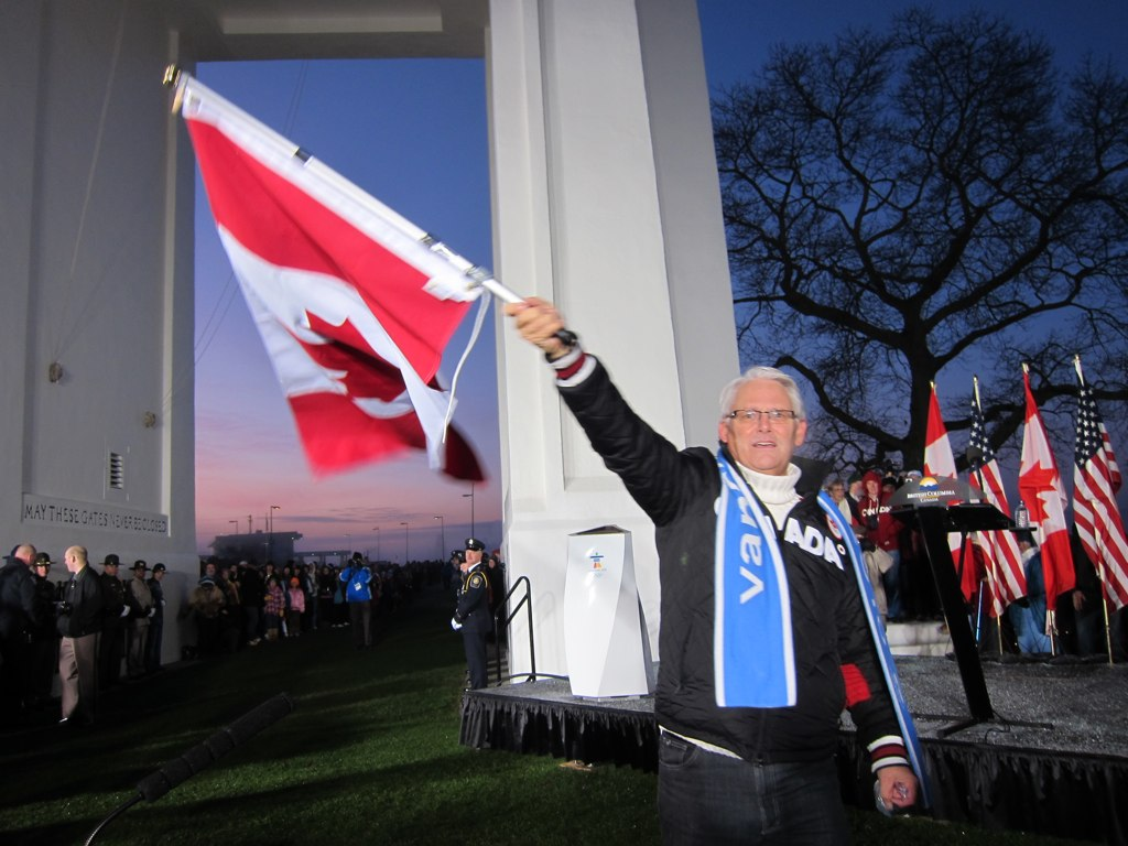 British Columbia Gordon Campbell waves the Canadian flag at the foot of the Peace Arch on the Canada - U.S. Border as the Olympic Flame makes its way to Vancouver.